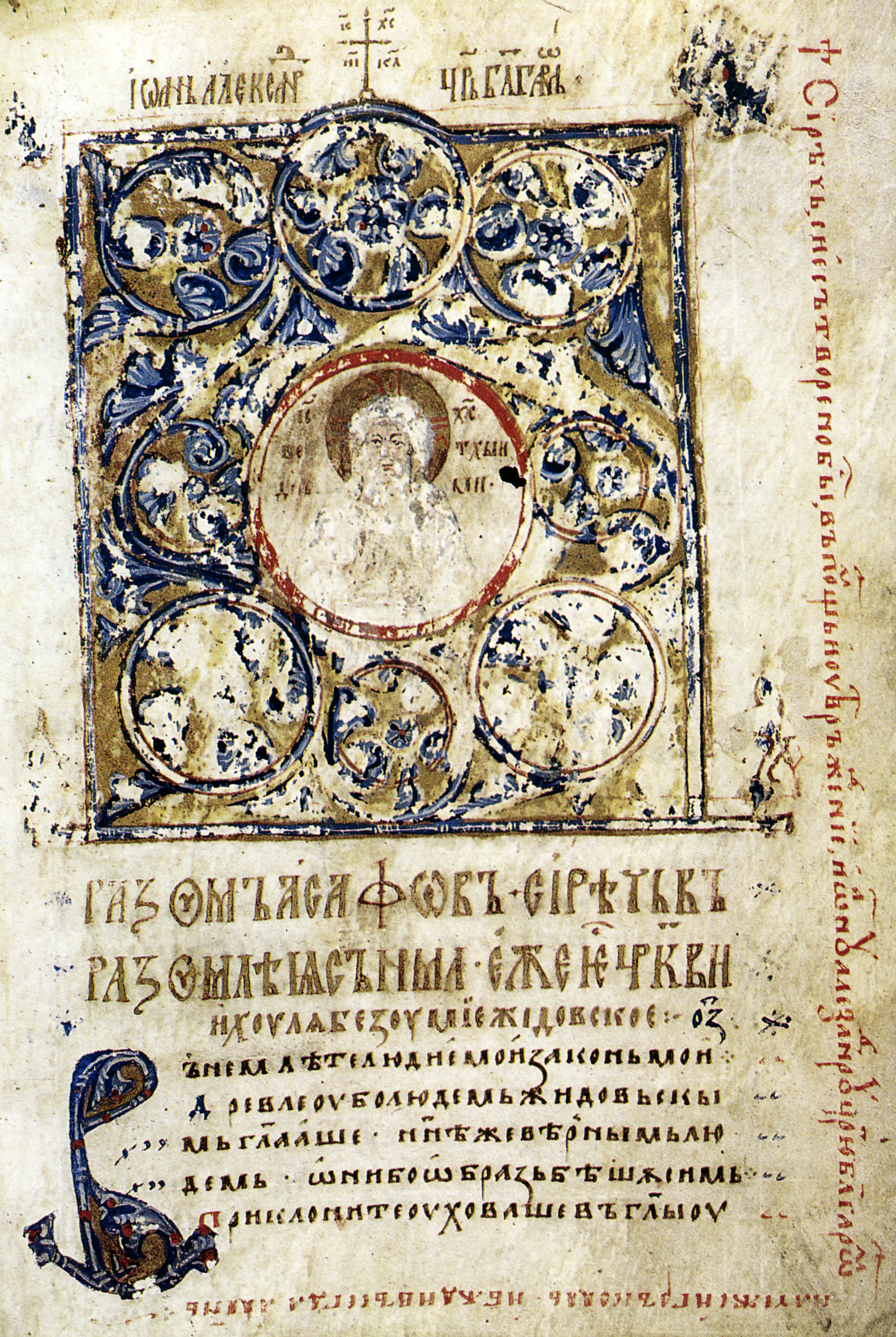 Bulgarian manuscript. Picture of Christ and Psalm LXXVII, Sofia Psalter (Psalter of Ivan Alexander, БАН номер 2)